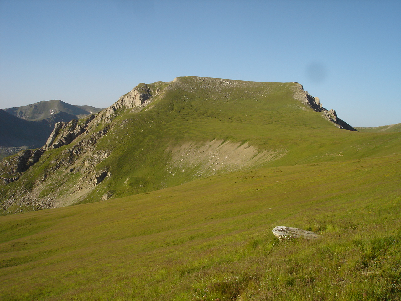 Trpeznica peak on Shar Mountain, Macedonia